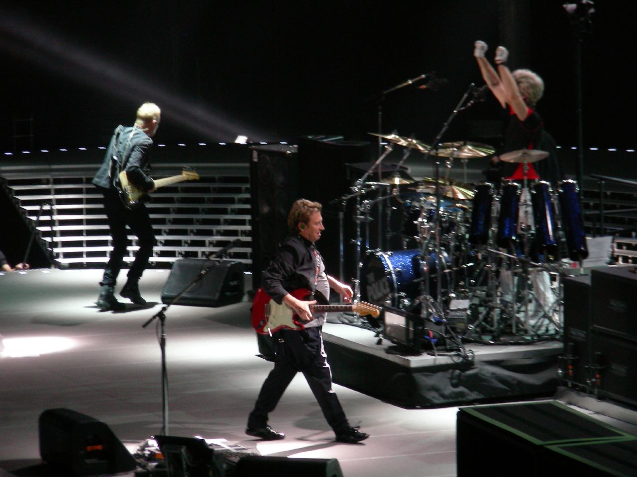 The Police